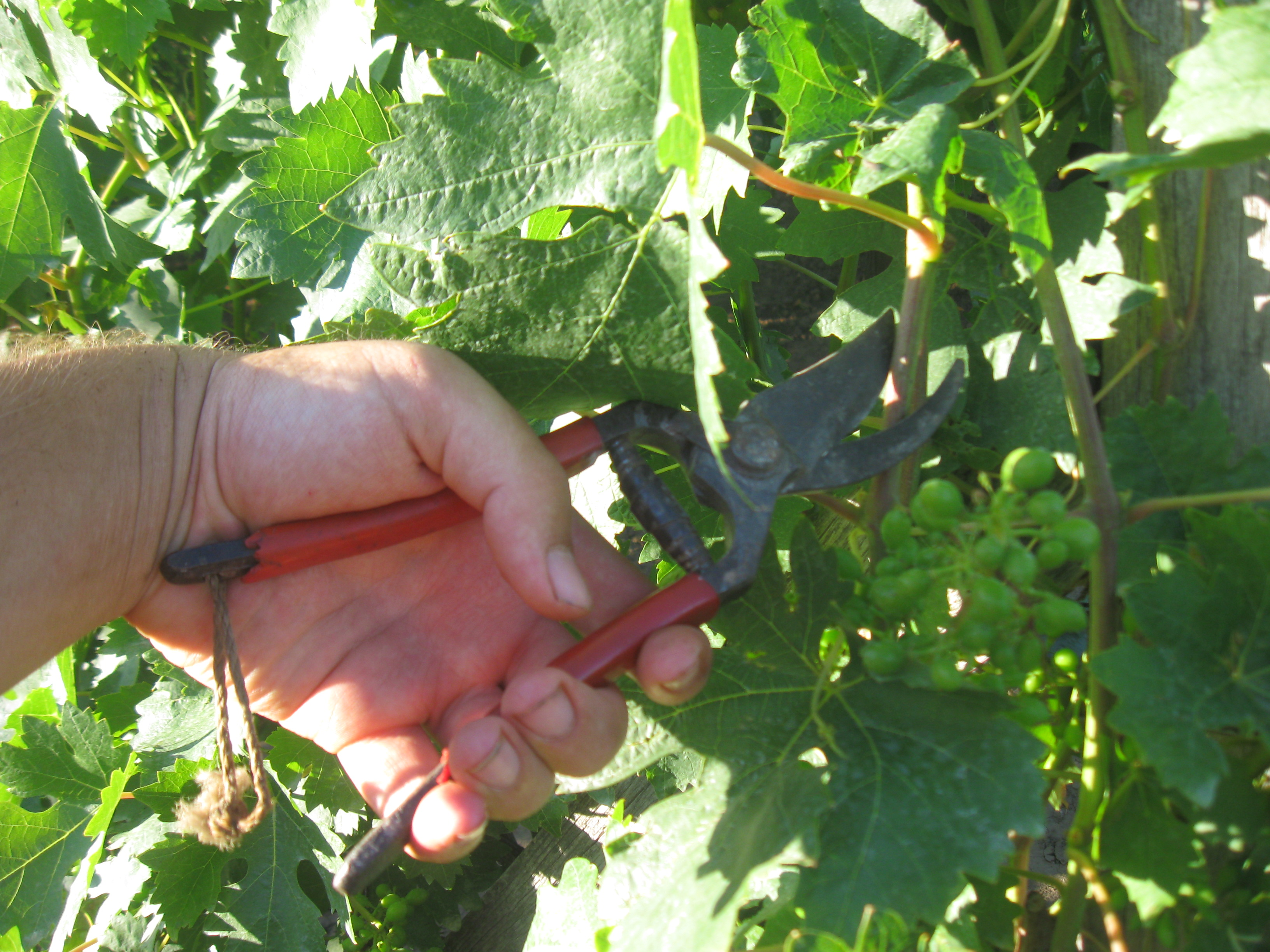 Grape pruning